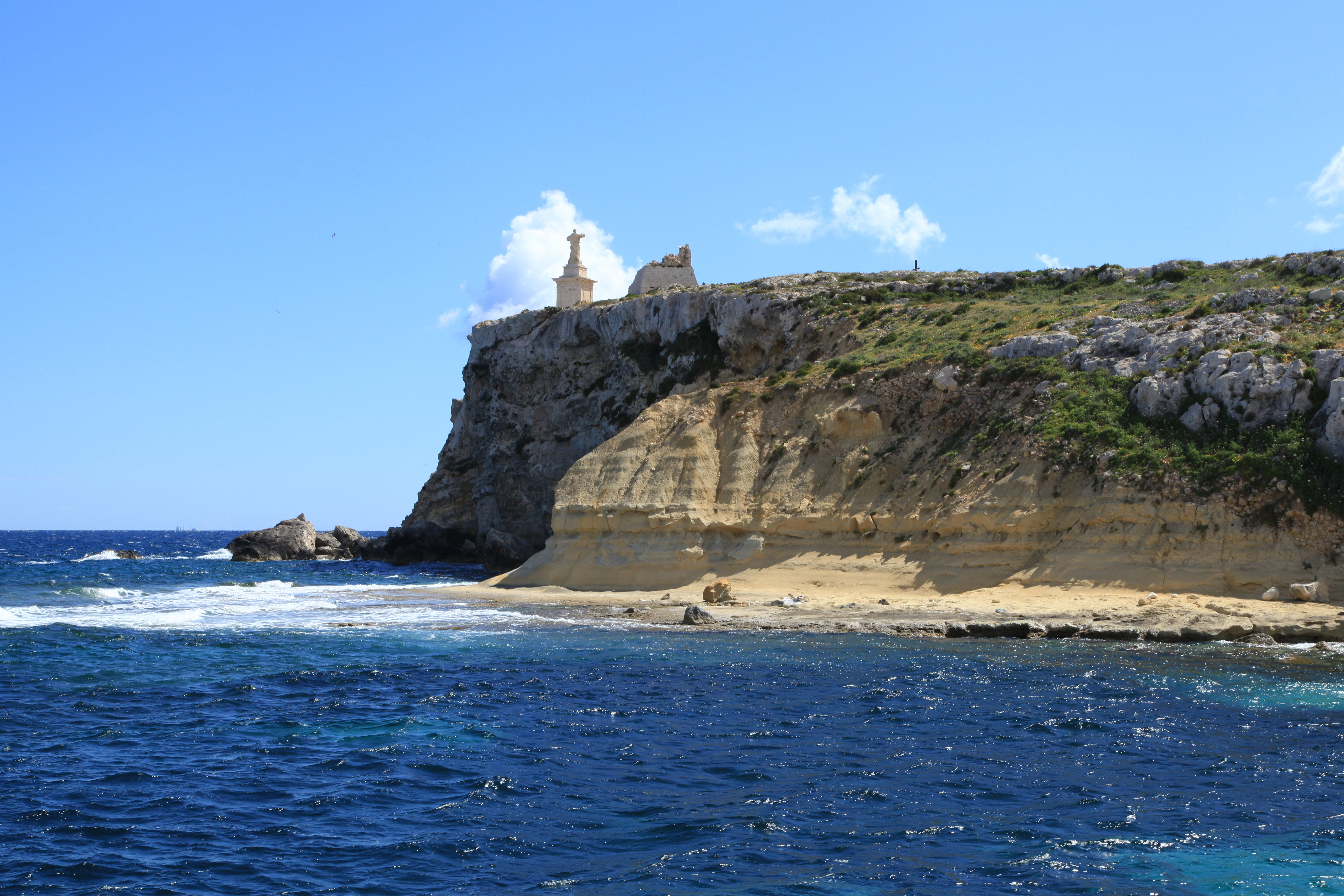 View from the Keppel (IMO 8434415) to the St Paul's Islands in Mellieħa, Malta